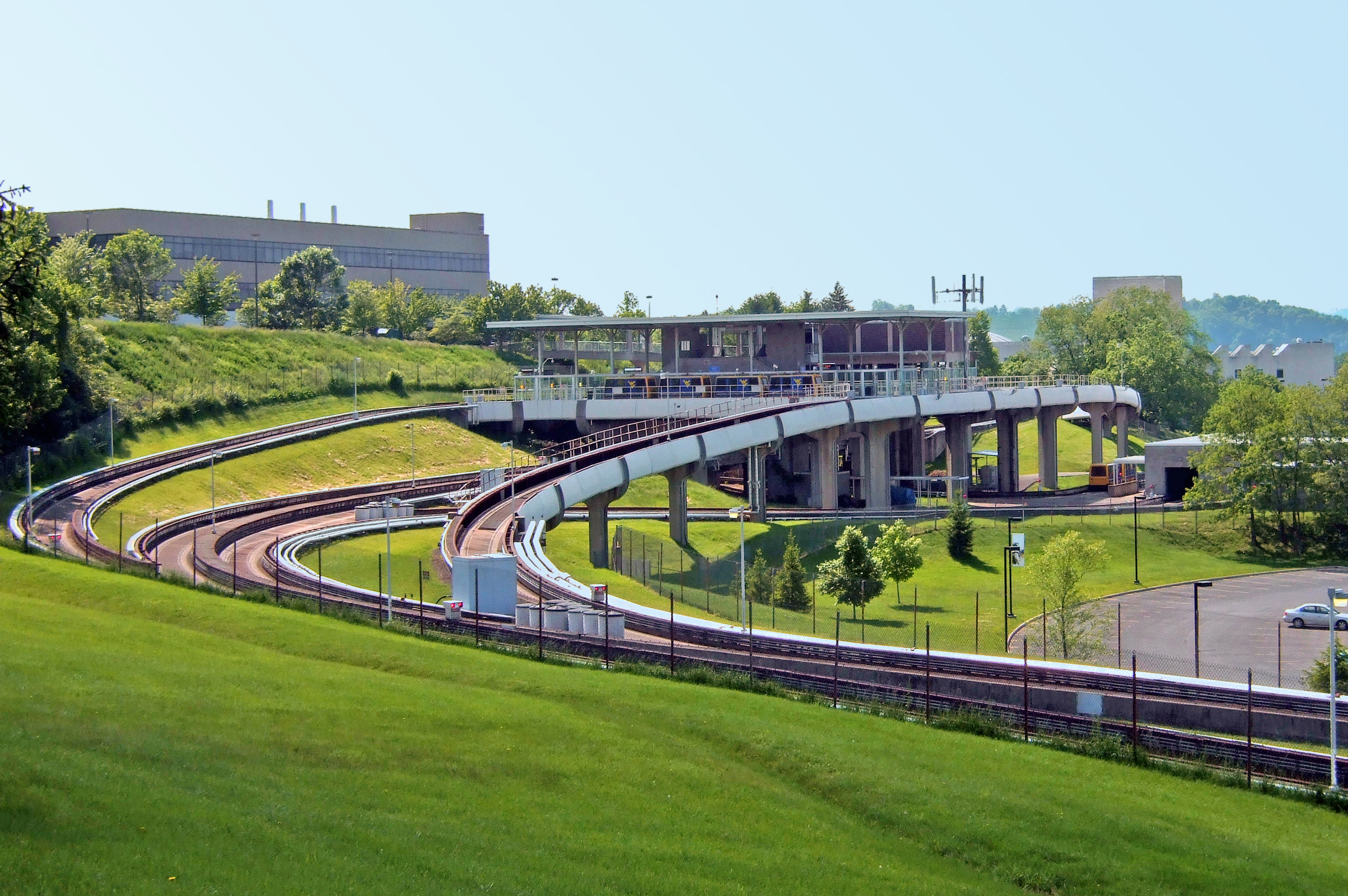 Engineering station of the Morgantown Personal Rapid Transit system